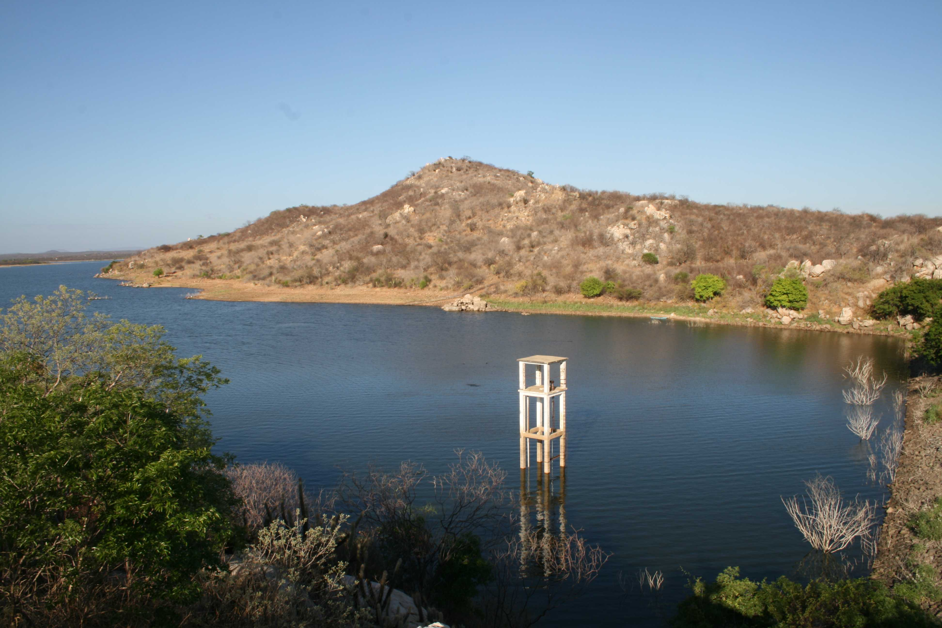 Weir Santo Antonio - São João do sabugi - RN - Brazil